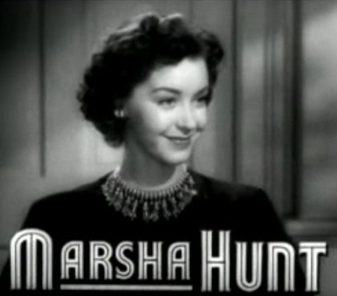 Cropped screenshot of Marsha Hunt from the trailer for the film Cry 'Havoc'